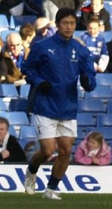 Lee Young-Pyo